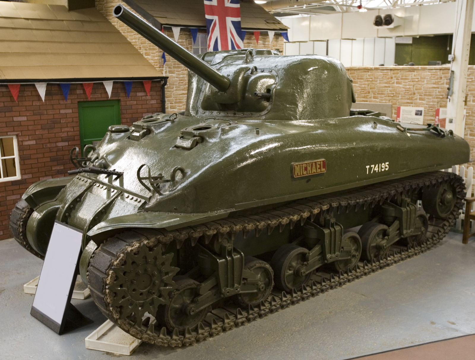 The first M4A1 Sherman "Land Lease" tank at Bovington Tank Museum in the UK. It was fitted with two additional bow machine guns which could be operated by the driver.